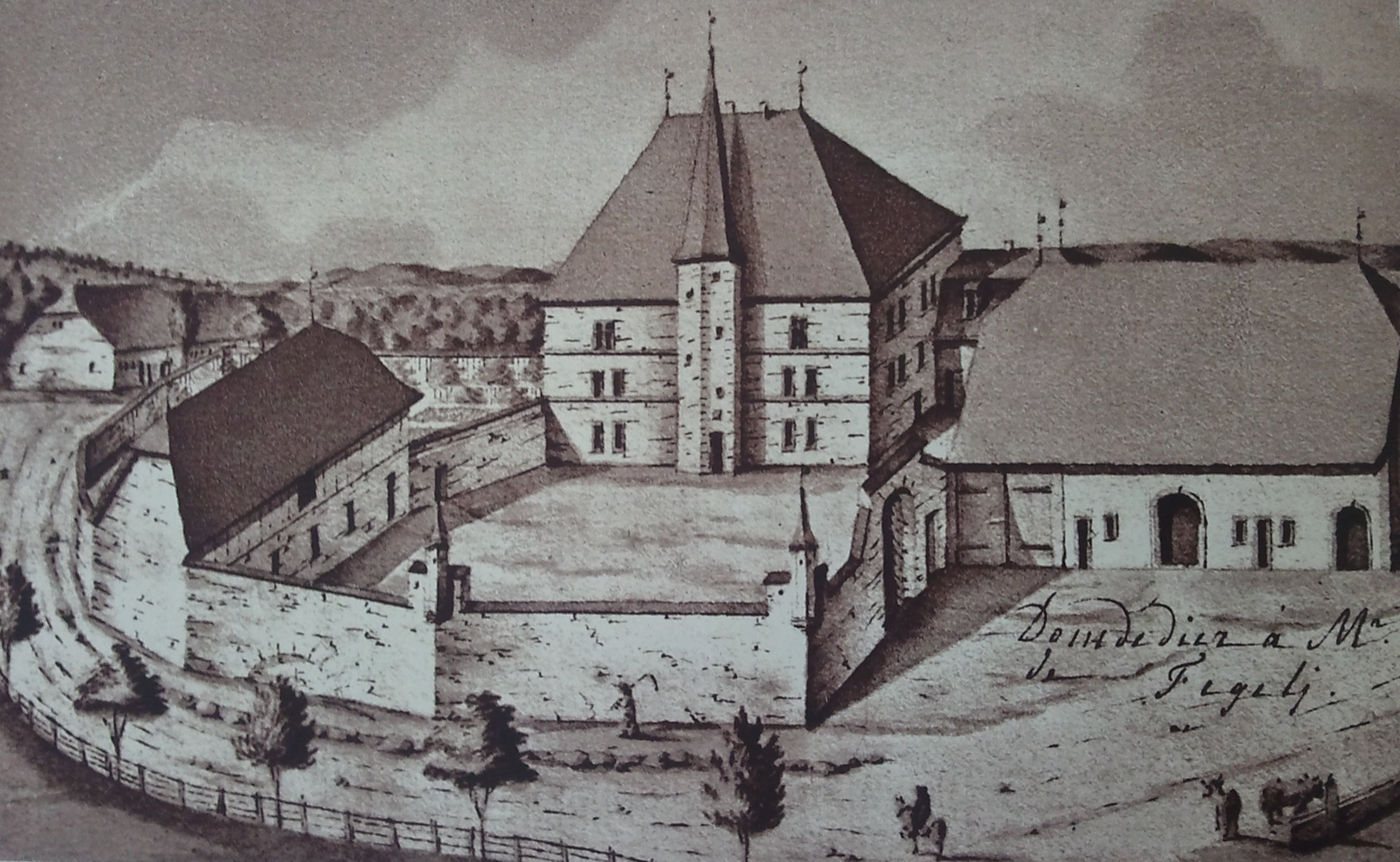 Domdidier Castle, seen from southeast (watercolour)